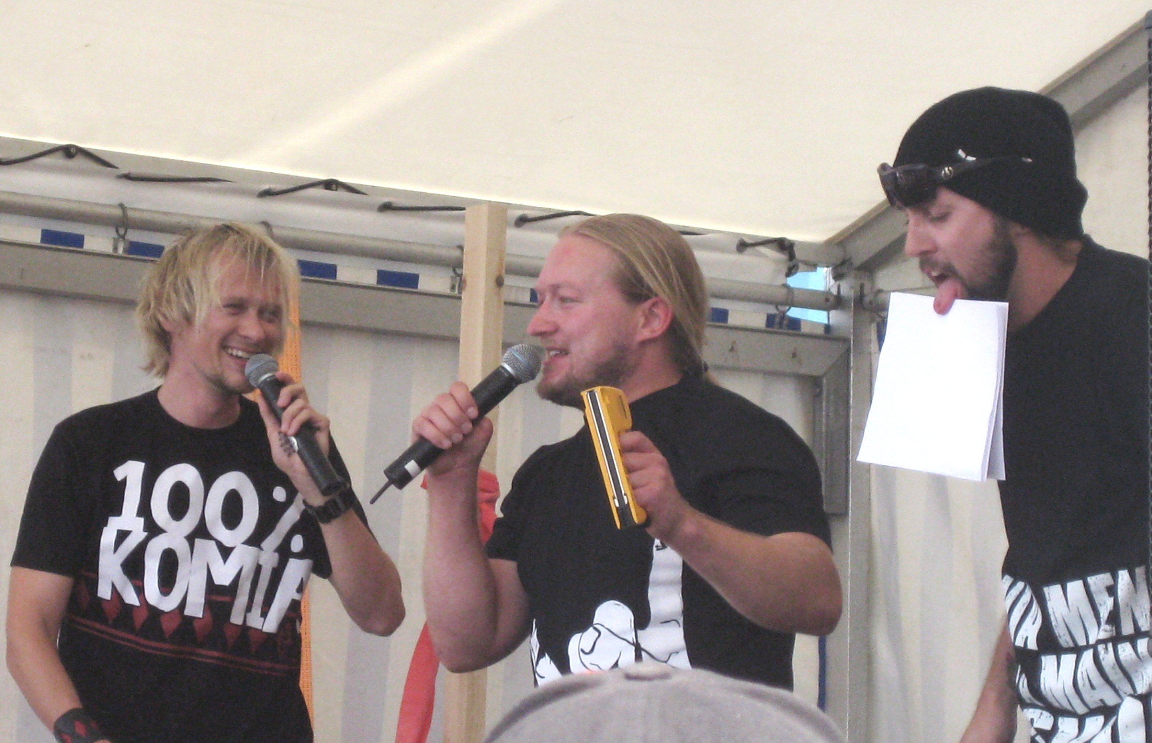 The Dudesons performing in front of shopping mall Lanterna in Roihupelto, Helsinki. From left to right Jarno, Jarppi and HP.